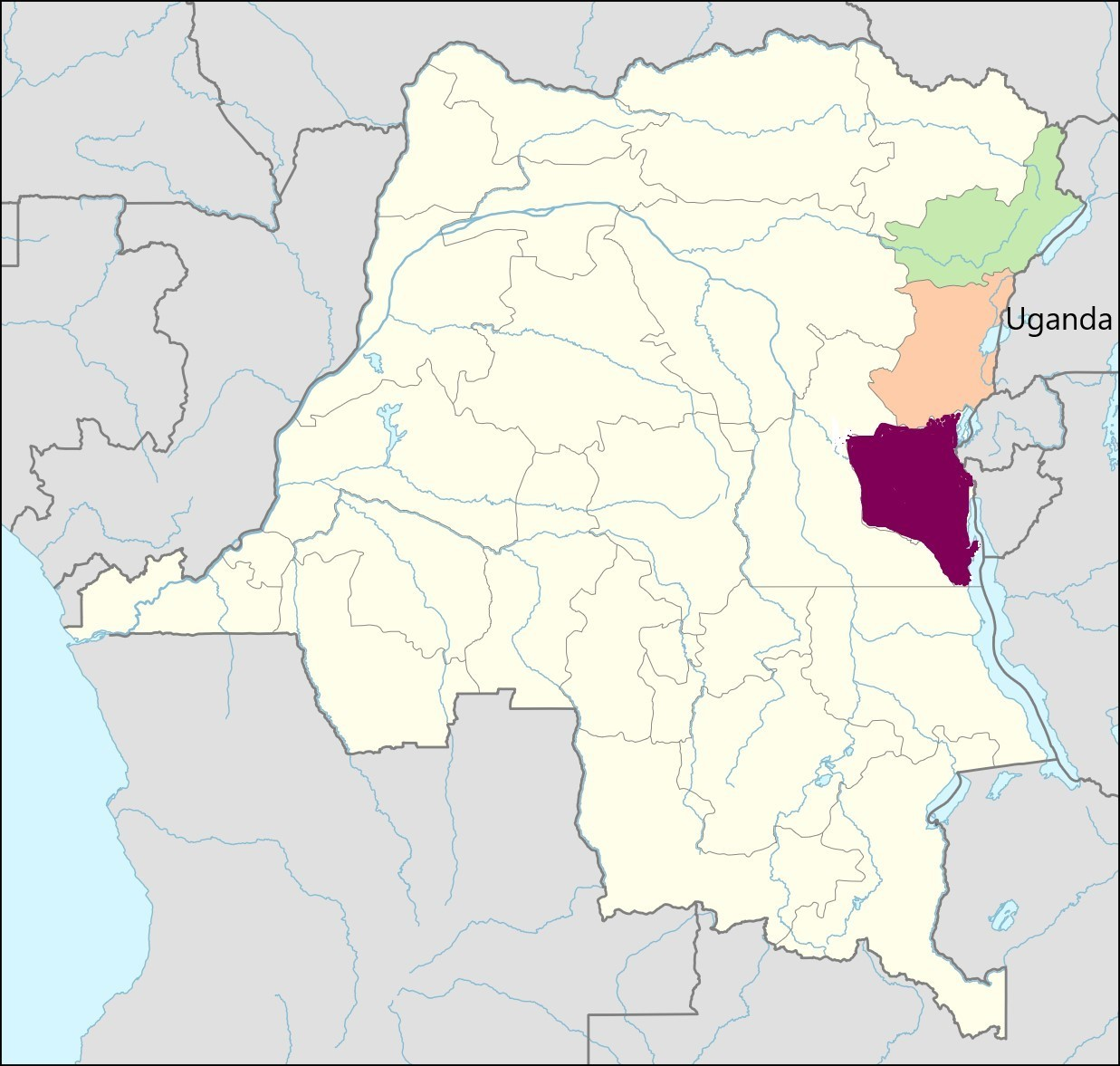 Map of DRC (Democratic Republic of the Congo)